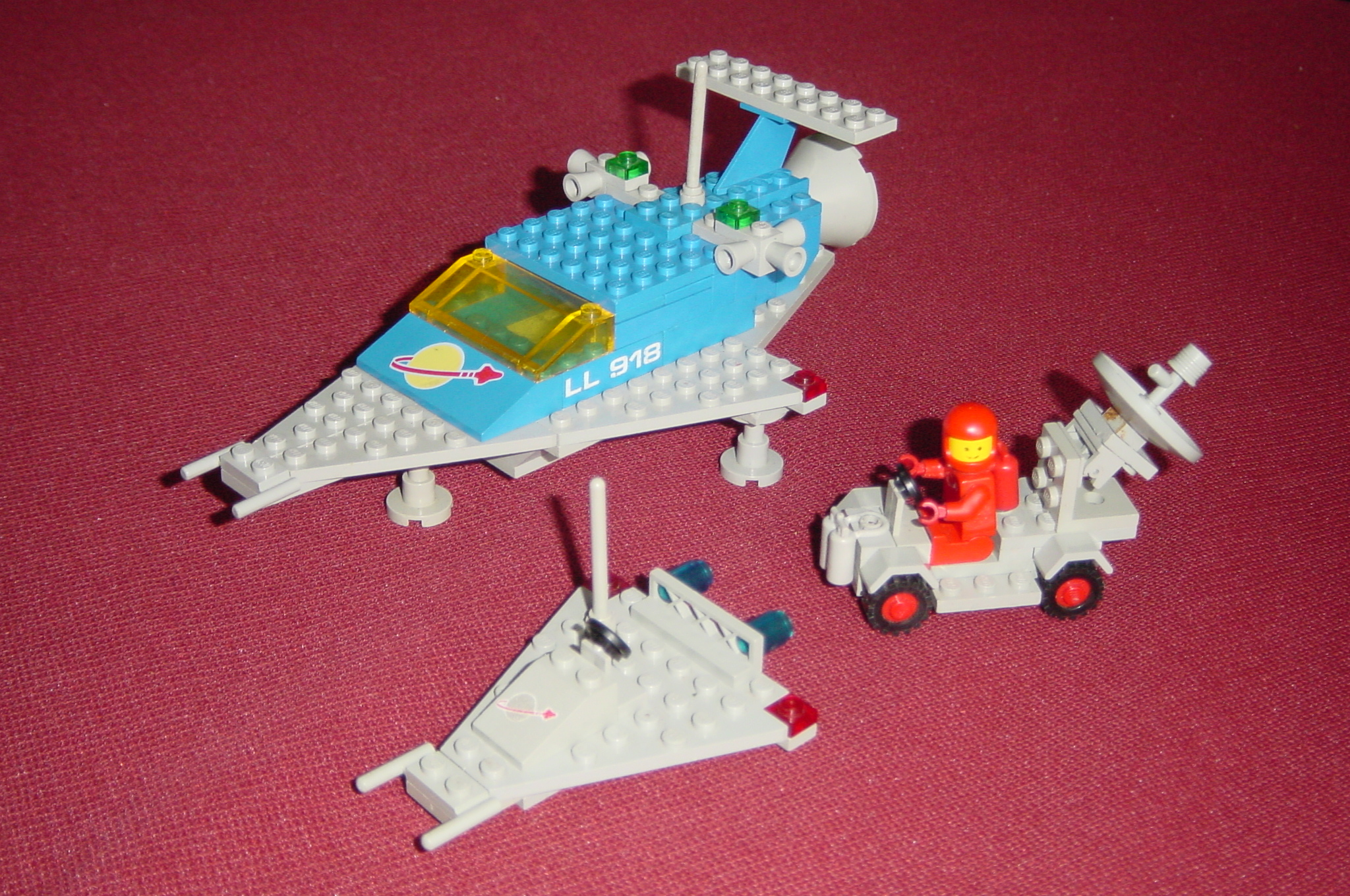 A playset from LEGO Classic Space, displayed on a red background